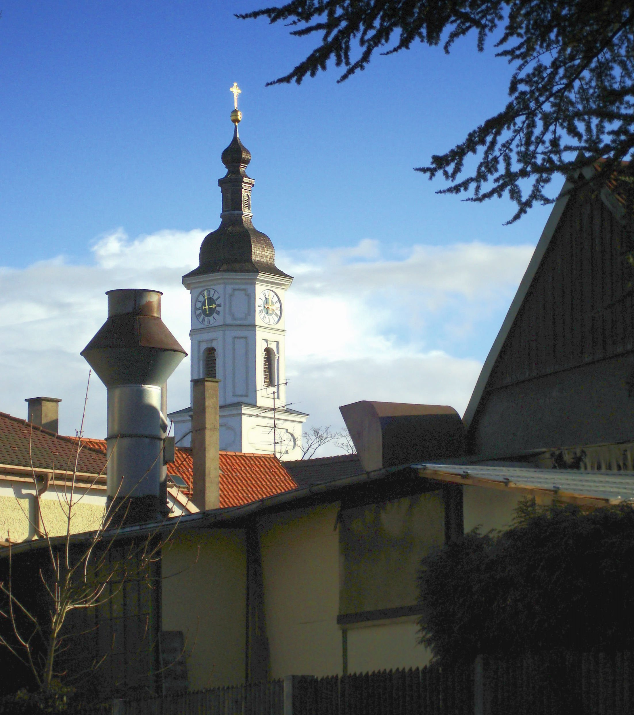 Sendling impression: Tower of Old Church St. Margaret